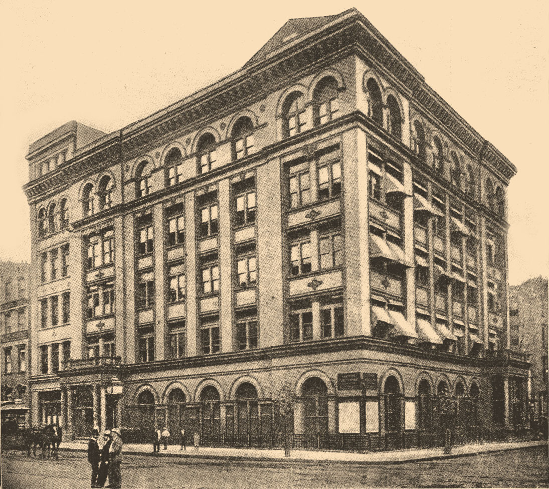 Illustration from Brockhaus and Efron Jewish Encyclopedia (1906—1913). Educational Alliance building, 197 East Broadway, New York. The building remains their headquarters as of 2014.